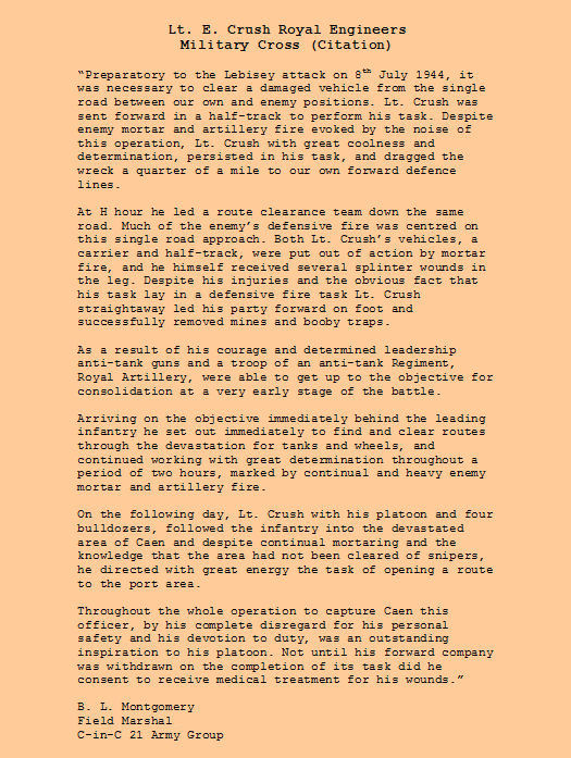 Author : UK War Office : Extract of Document of Record. Description : Medal Award Citation 1944 (WWII D-Day). Source : Lt. E. Crush MC Royal Engineers (Officer receiving the MC Medal).